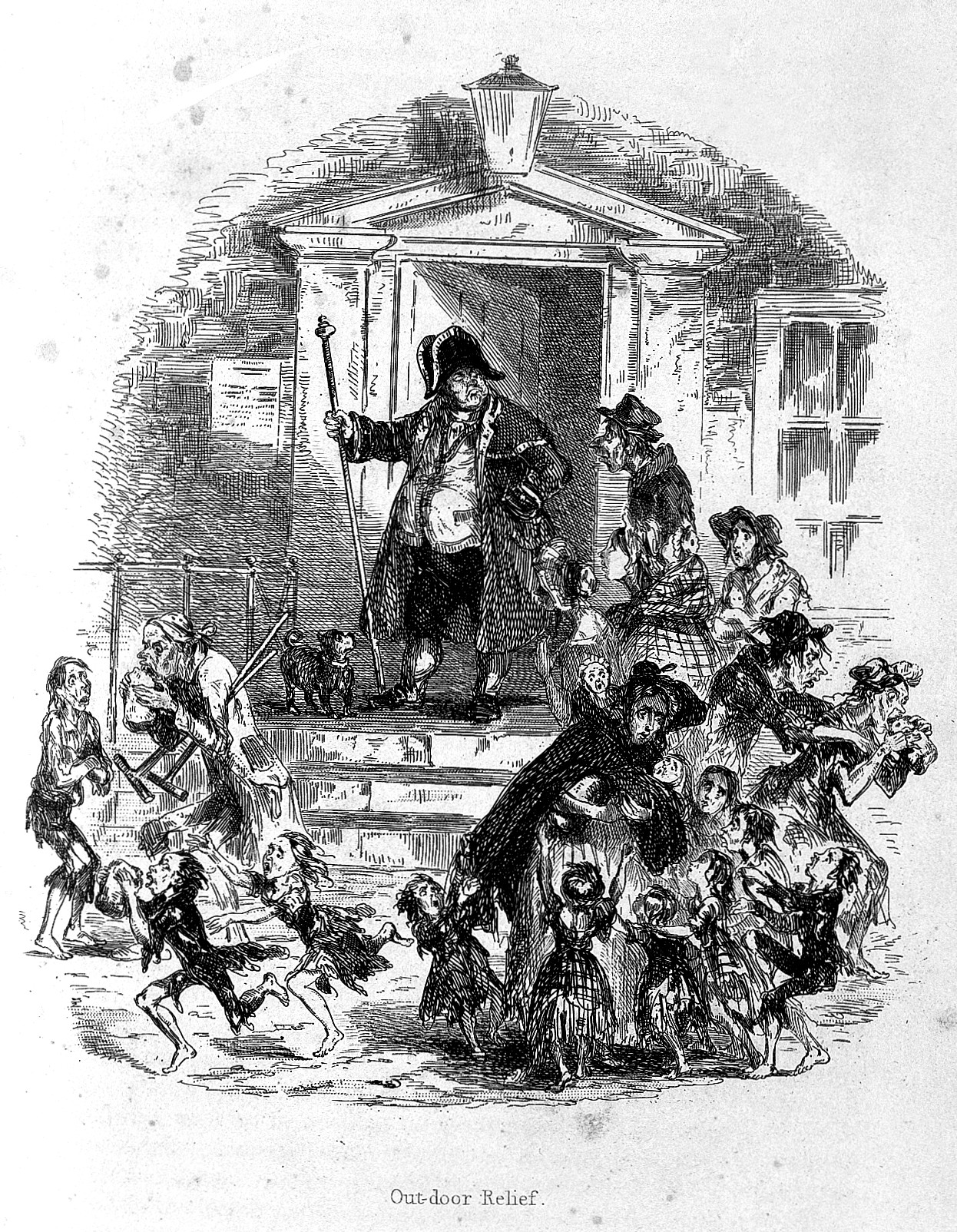 Caricature of poor people coming to a workhouse to get food; by Phiz (?), Rare Books Keywords: Nineteenth Century; Workhouses; Great Britain